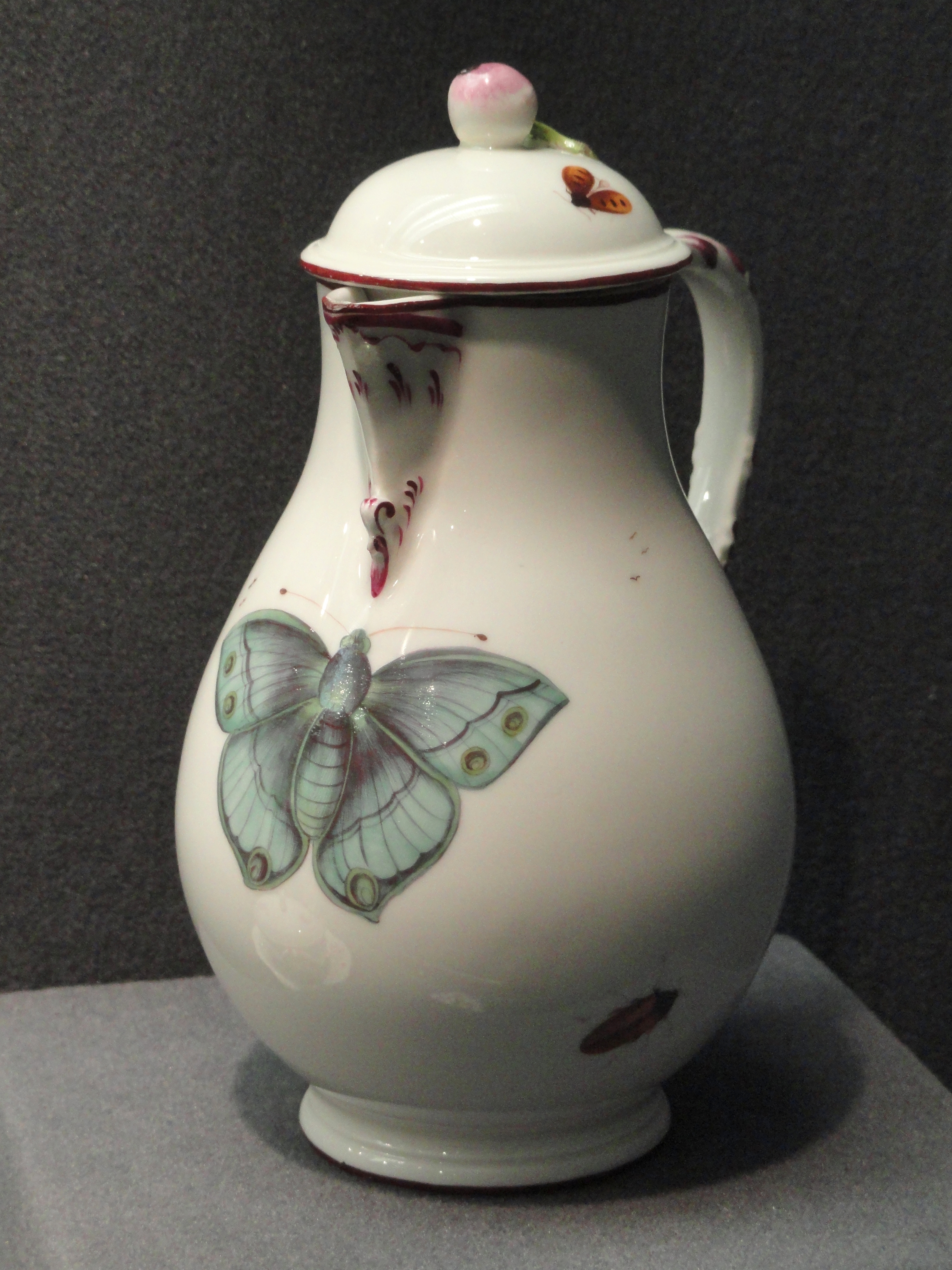 Exhibit in the Gardiner Museum, Toronto, Ontario, Canada. This artwork is in the public domain because the artist died more than 70 years ago.